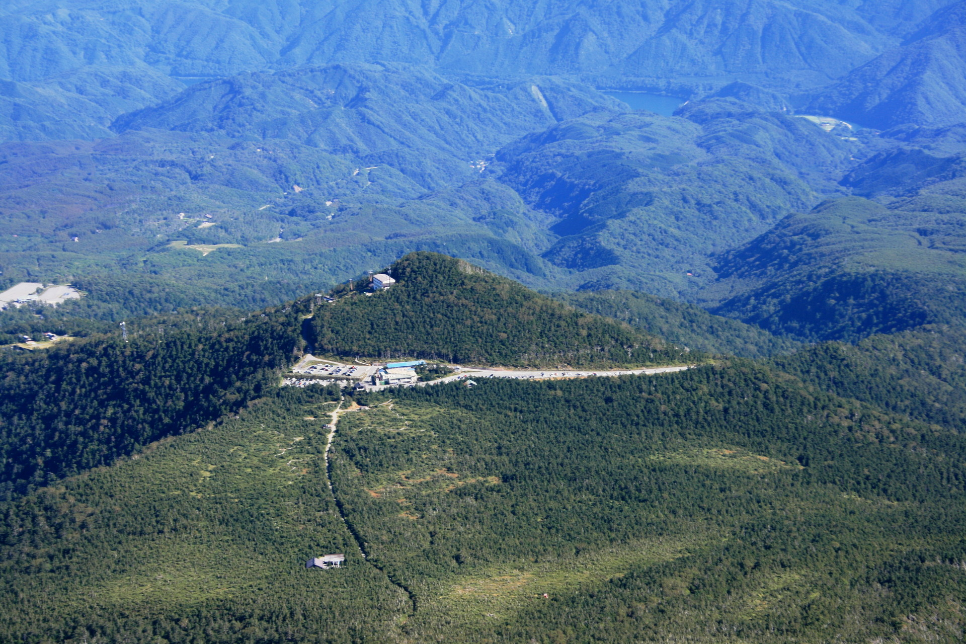 Mount Mikasa of Mount Ontake